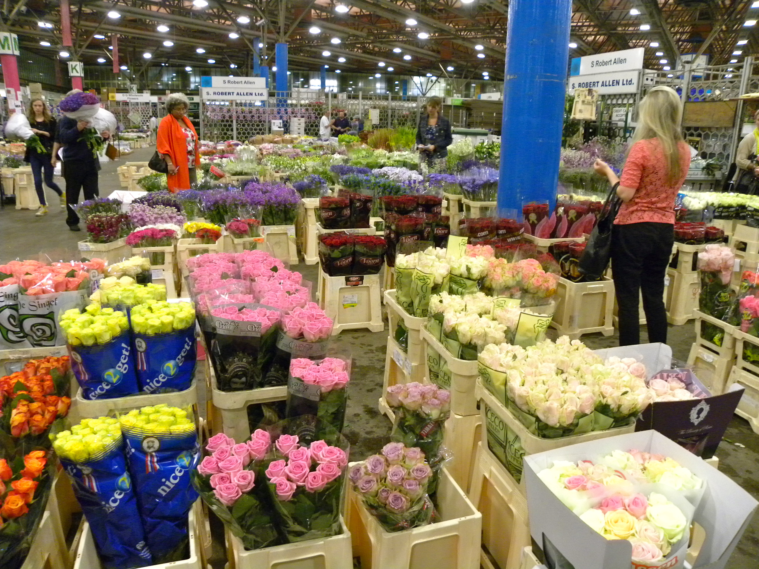 Inside the Flower Market building.